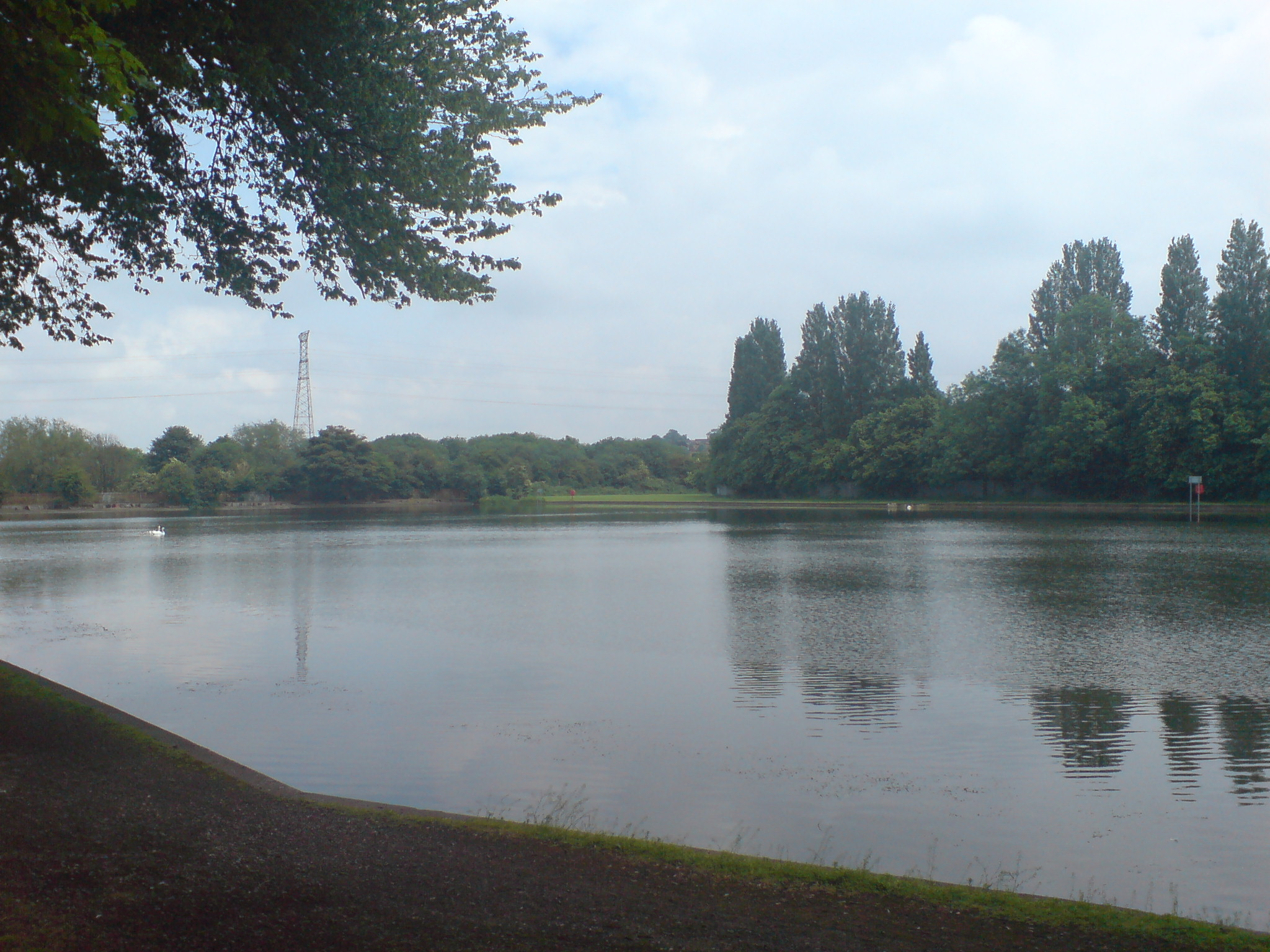 View lookingnorthwest across Lifford Reservoir, Kings Norton, Birmingham, UK at around midday